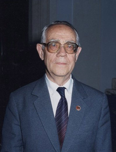 Valentin Vital'yevich Rumyantsev